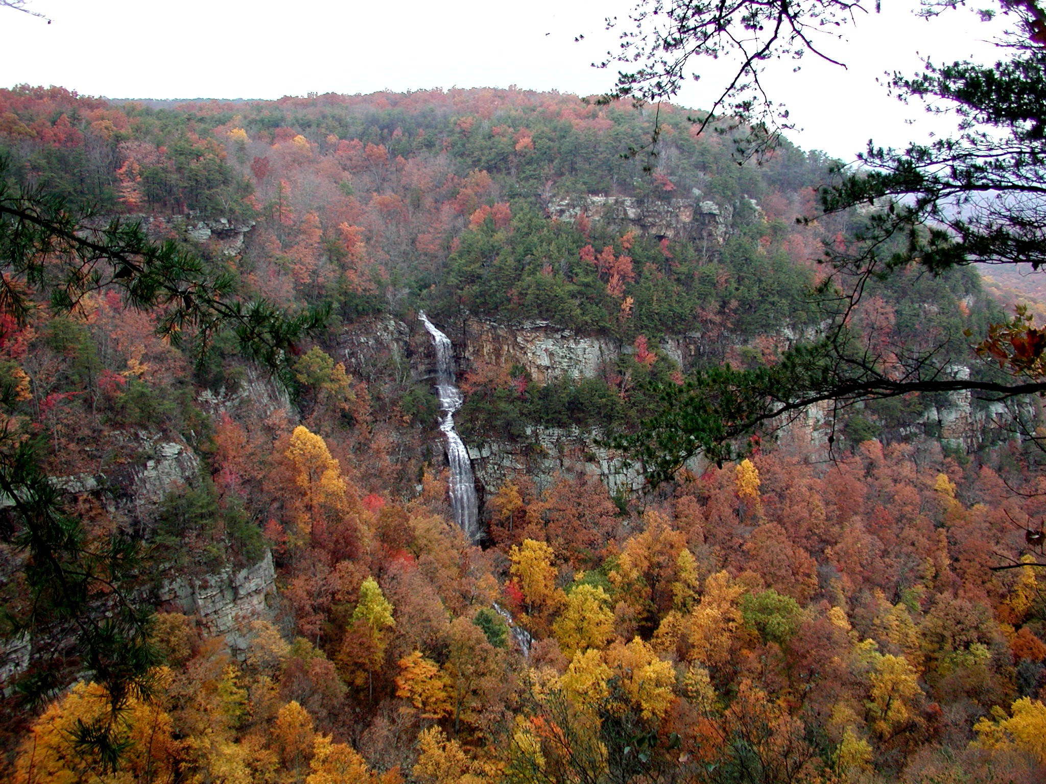 Photo by R. McClenny